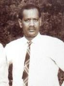 Rani Hamid and MA Hamid after their wedding in 1959